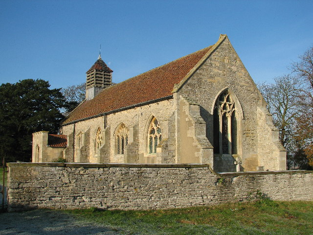 Saint Michael's Church, Cotham. Closed circa 1976, and parish united with Hawton.